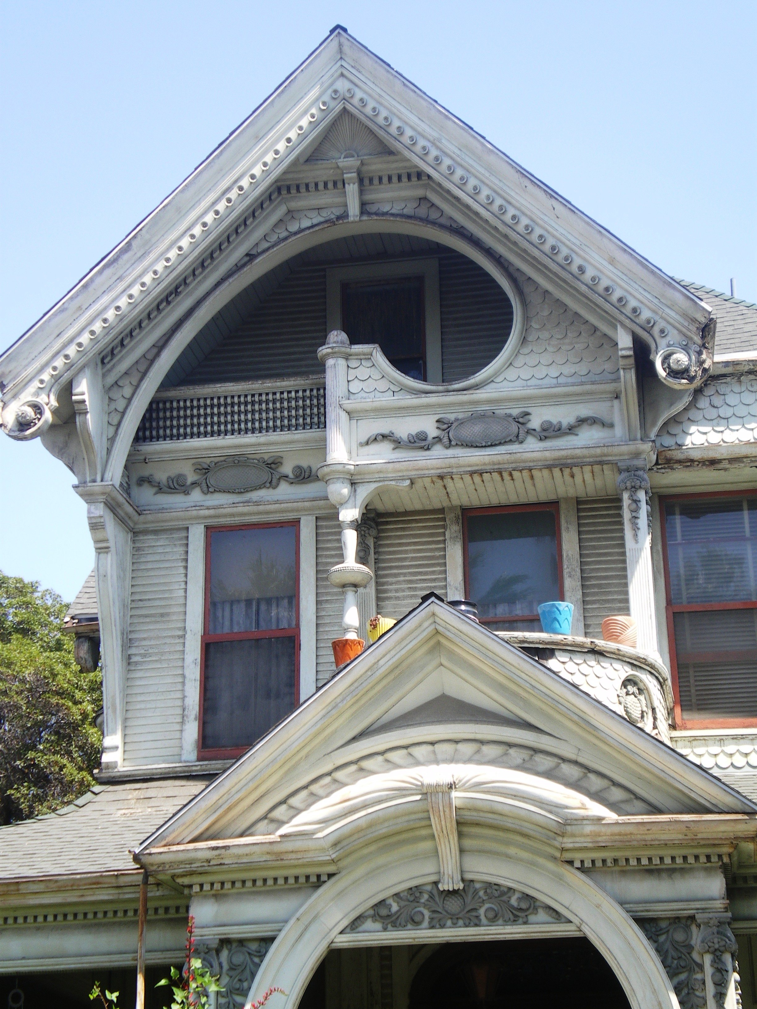 Peak on Frederick Mitchell Mooers House, 818 S. Bonnie Brae St., Los Angeles, California (LA Cultural Heritage Monument No. 45)